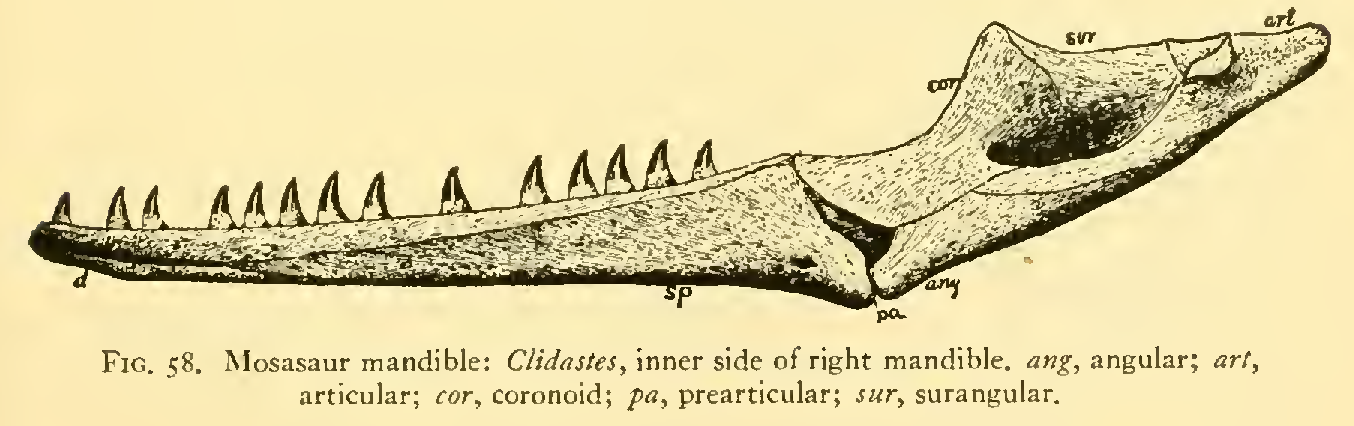 An illustration from The Osteology of the Reptiles